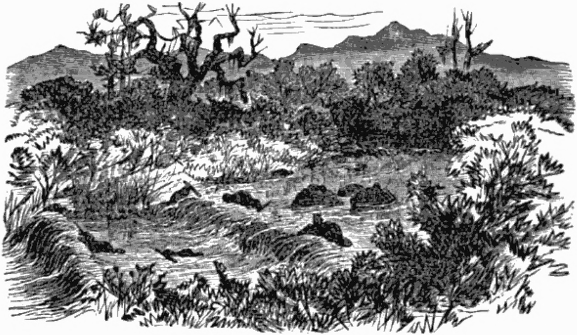 The Beaver Dam